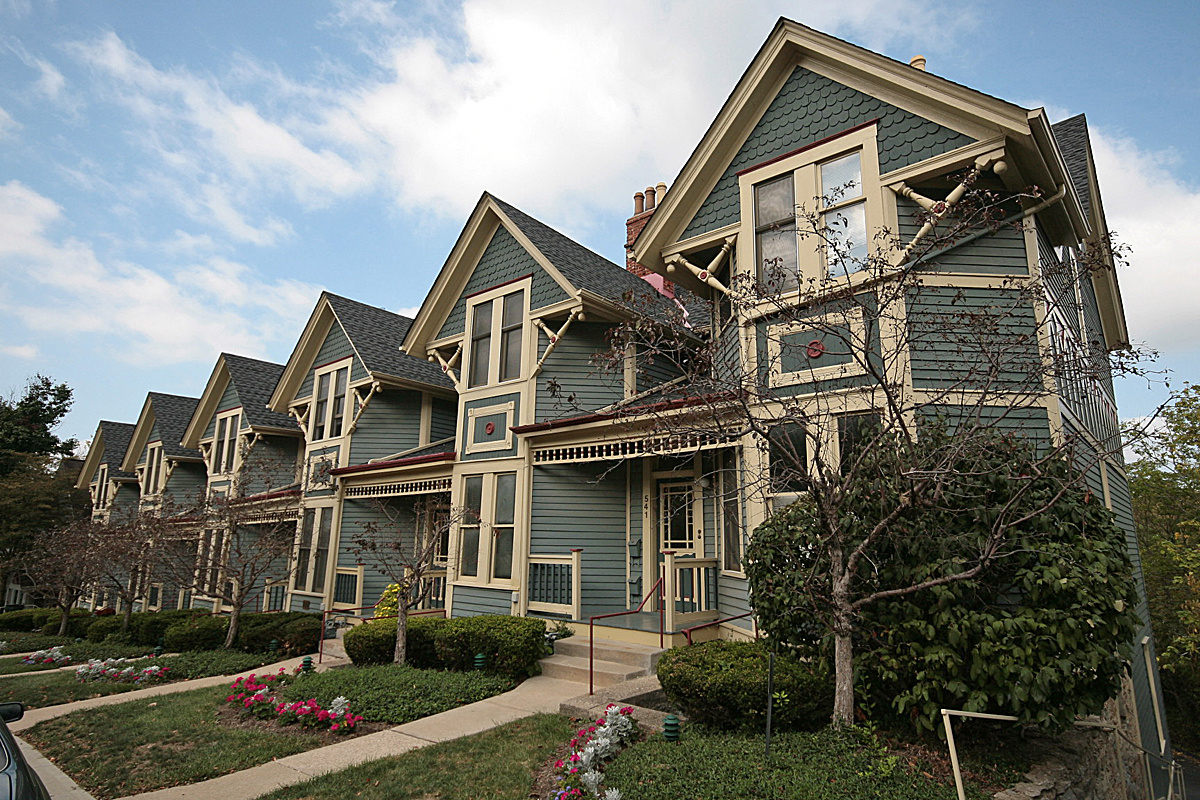 Stephen Decker Rowhouses in Cincinnati, Oh. Photo by Greg Hume